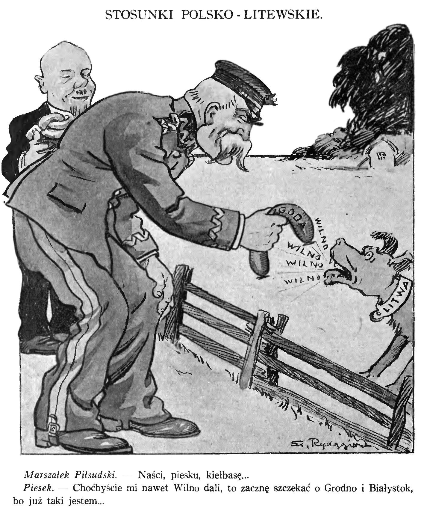 A cartoon from the Polish satirical magazine Mucha (1934): a caricature of Marshal Józef Piłsudski and Lithuania, criticizing Lithuanian unwillingness to compromise over the Vilnius region. Marshal Piłsudski offers the meat (labelled "agreement") to the dog (whose collar is labelled "Lithuania") and is saying "Here, dog, [have] sausage"; the dog barking "Wilno, wilno, wilno" replies: "Even if you were to give me Wilno, I would bark for Grodno and Białystok, because this is who I am".